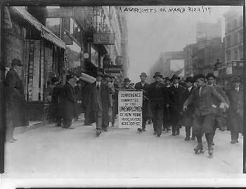 Demonstration of anarchists against unemployment in New York, 1914. On Fifth Avenue, Manhattan, New York City, United States. Looking towards the junction with East 22nd Street in the Flatiron District.